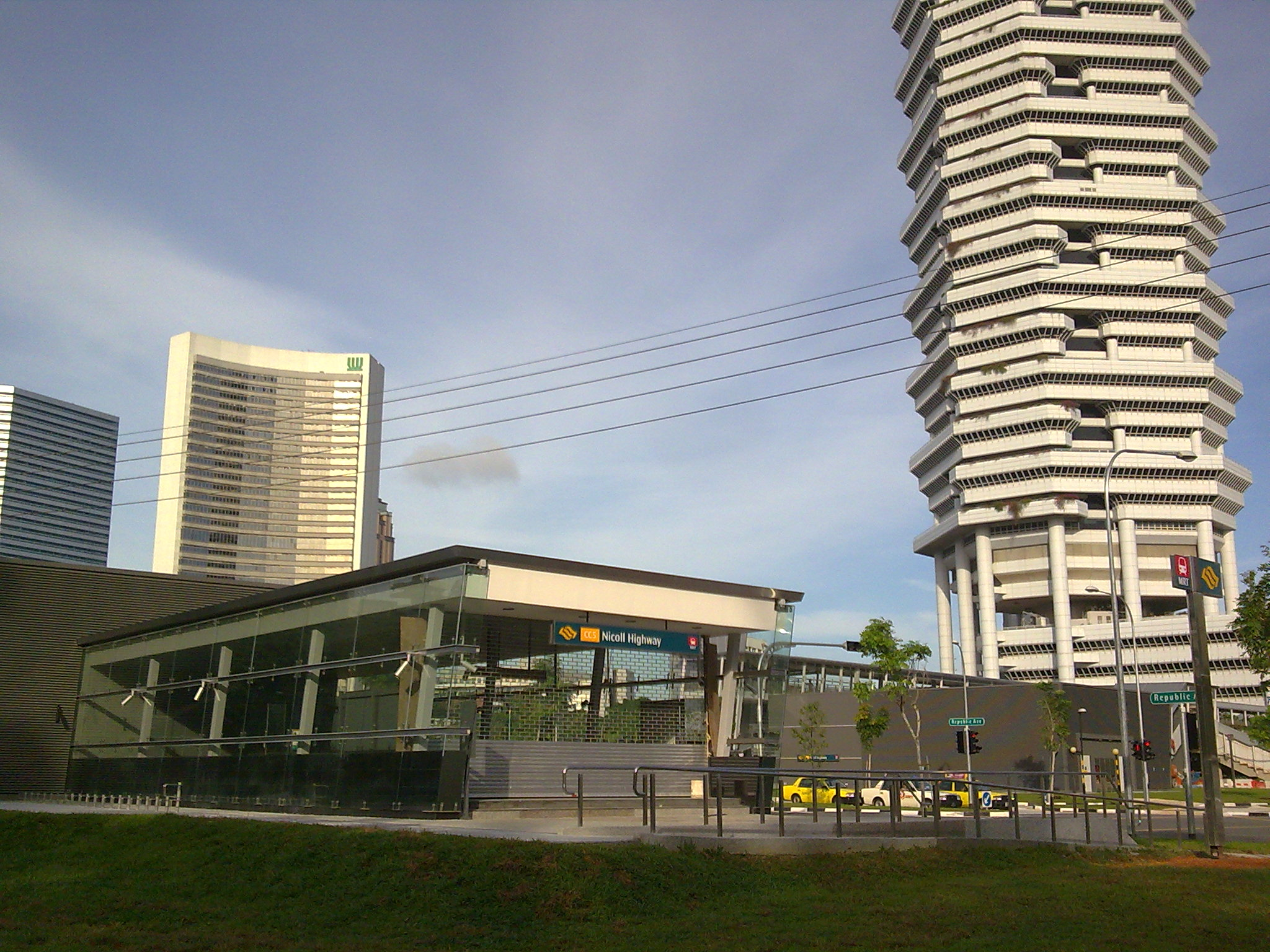 Station exit B of Nicoll Highway MRT Station on the Circle Line. After the station collapsed in an accident in 2004, it has been rebuilt and is set to be completed in 2010.